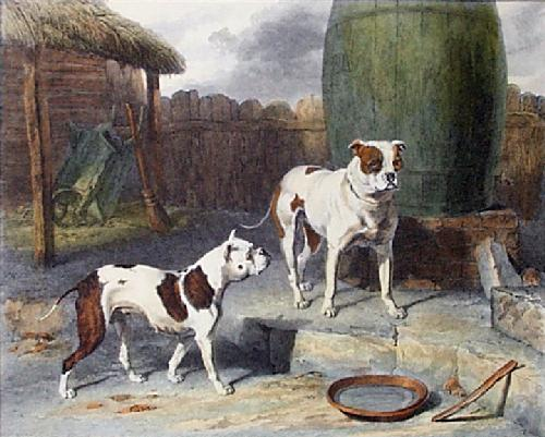 "Crib and Rosa" circa 1817 Abraham Cooper (1787-1868) Crib and Rosa, painting of two bulldogs reflecting the way the breed looked in those times, without the squarer skull and more massive body of the modern breed.[1]